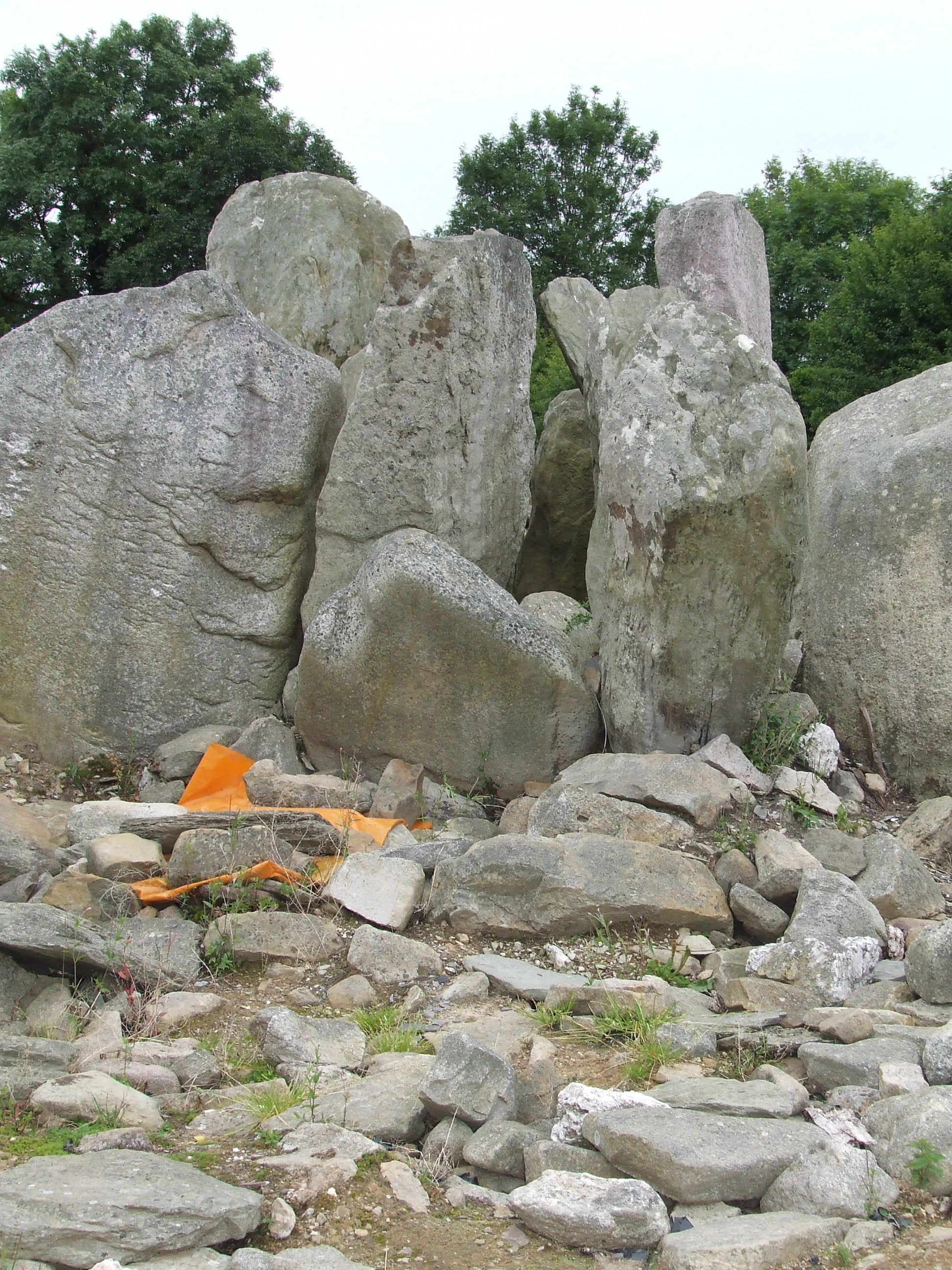 National monument. Passage tomb. Aligned with the rising sun on the Winter solstice. Located at Knockroe, County Kilkenny.